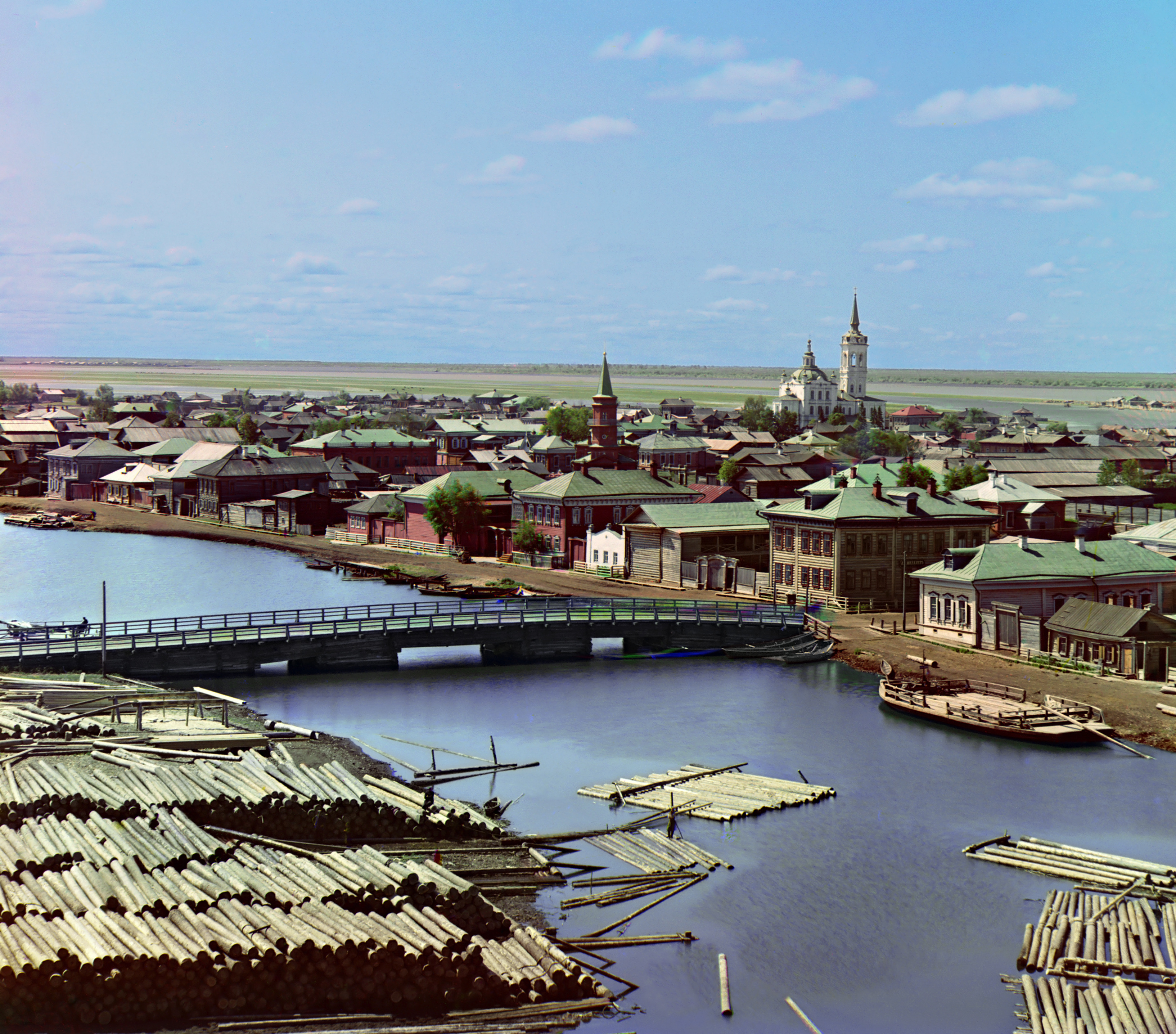 View of the city of Tobolsk from the north, from the bell tower of the Church of the Transfiguration (Preobrazhensky Sobor). Russia.